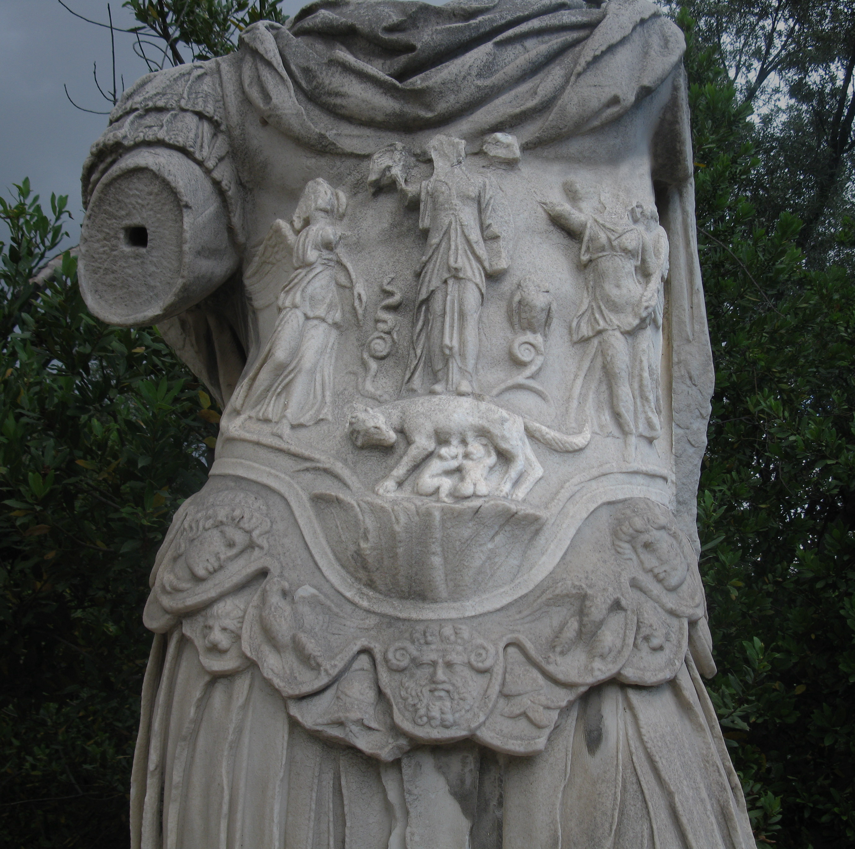 Roman statue in Athen's Agora (Greece)